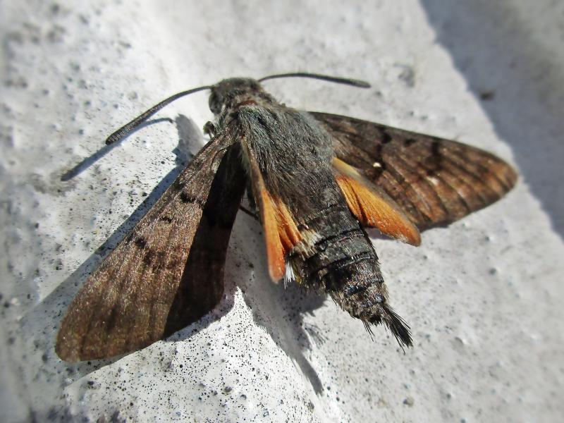 Macroglossum stellatarum (Hummingbird hawk-moth), Arnhem, the Netherlands